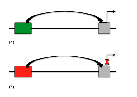 This image shows two different simple mechanisms of how an enhancer and a silencer affects the promoter region (gray box). In portion (A), the enhancer (green box) will activate the promoter region in order to initiate transcription. In (B), a silencer (red box) will "turn off" the promoter region, inhibiting transcription.